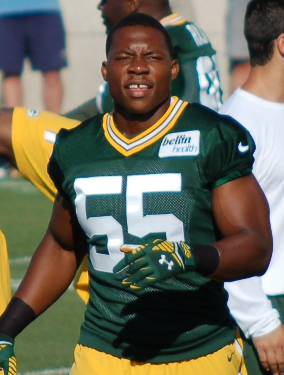 2015 Packers training camp